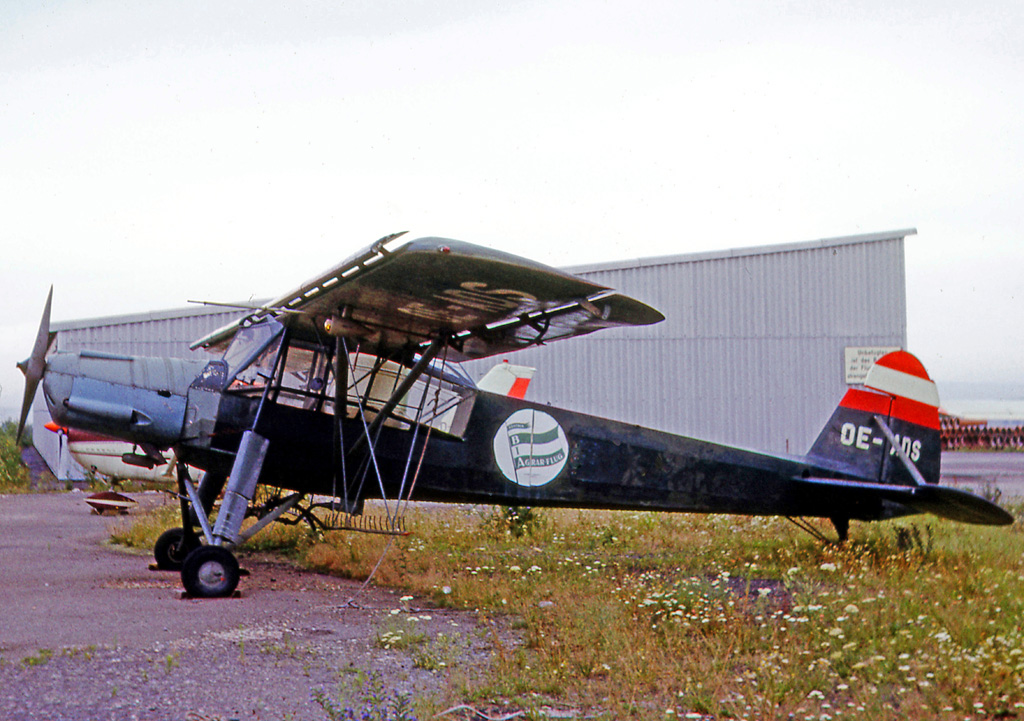 Fieseler Storch OE-ADS fitted for agricultural spraying at Stuttgart Airport in 1965